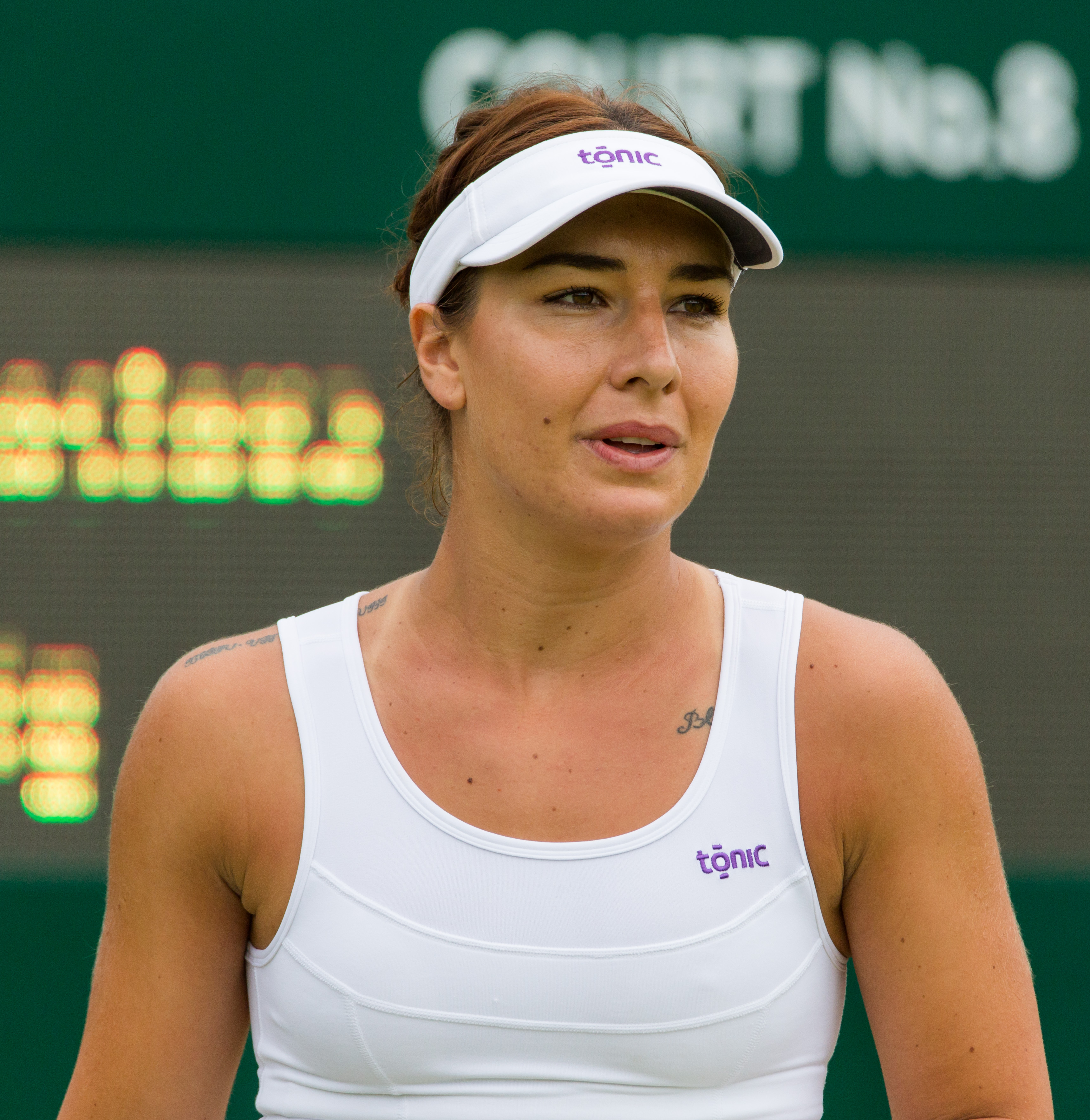 Elitsa Kostova competing in the first round of the 2015 Wimbledon Qualifying Tournament at the Bank of England Sports Grounds in Roehampton, England. The winners of three rounds of competition qualify for the main draw of Wimbledon the following week.